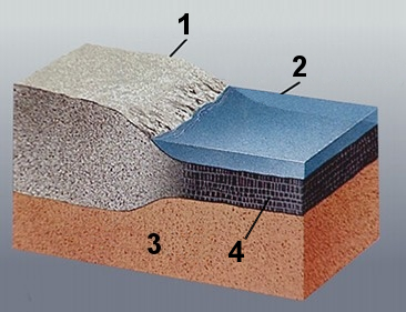 escorça terrestre